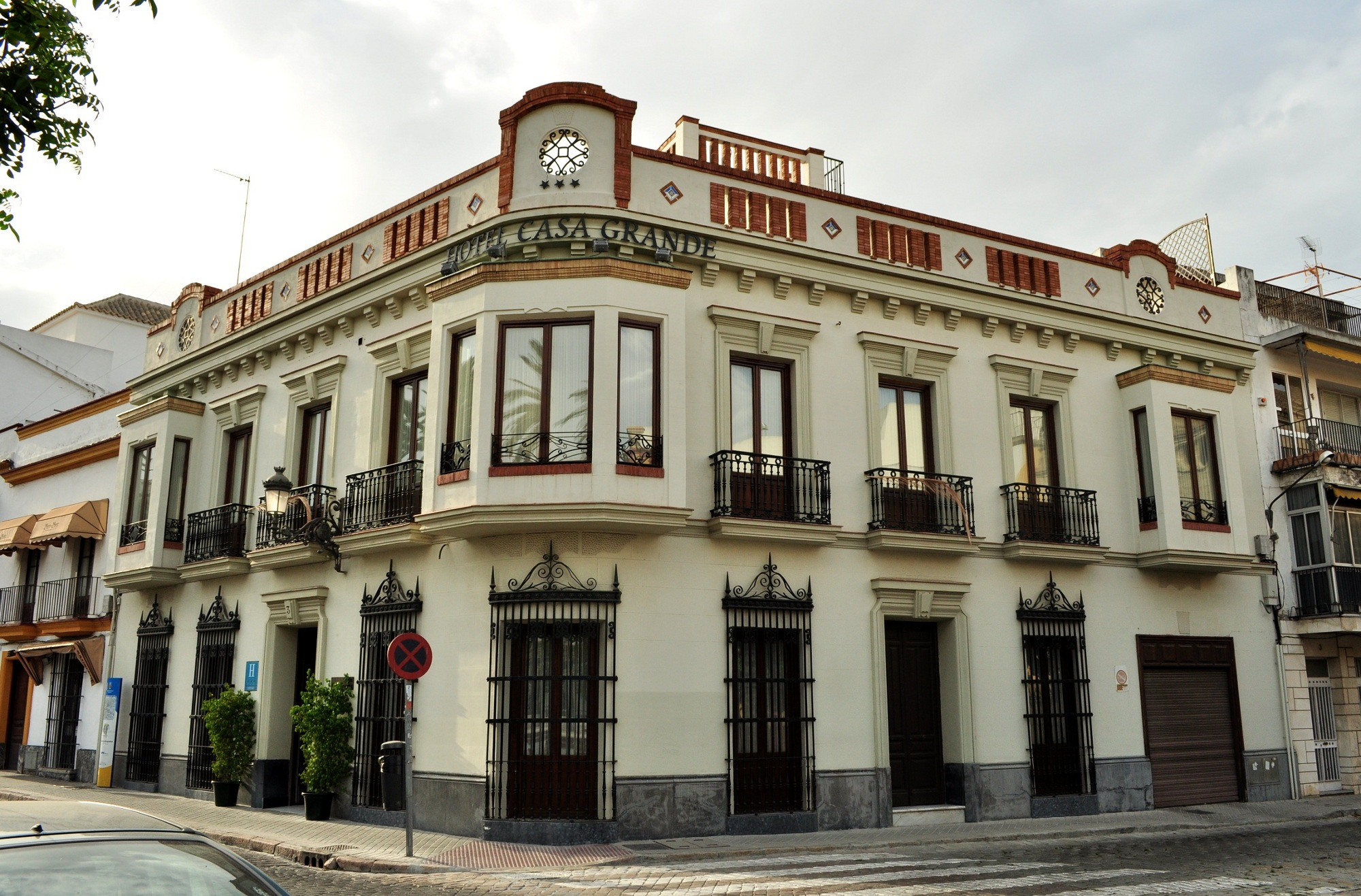 Hotel at Angustias Squares, Jerez